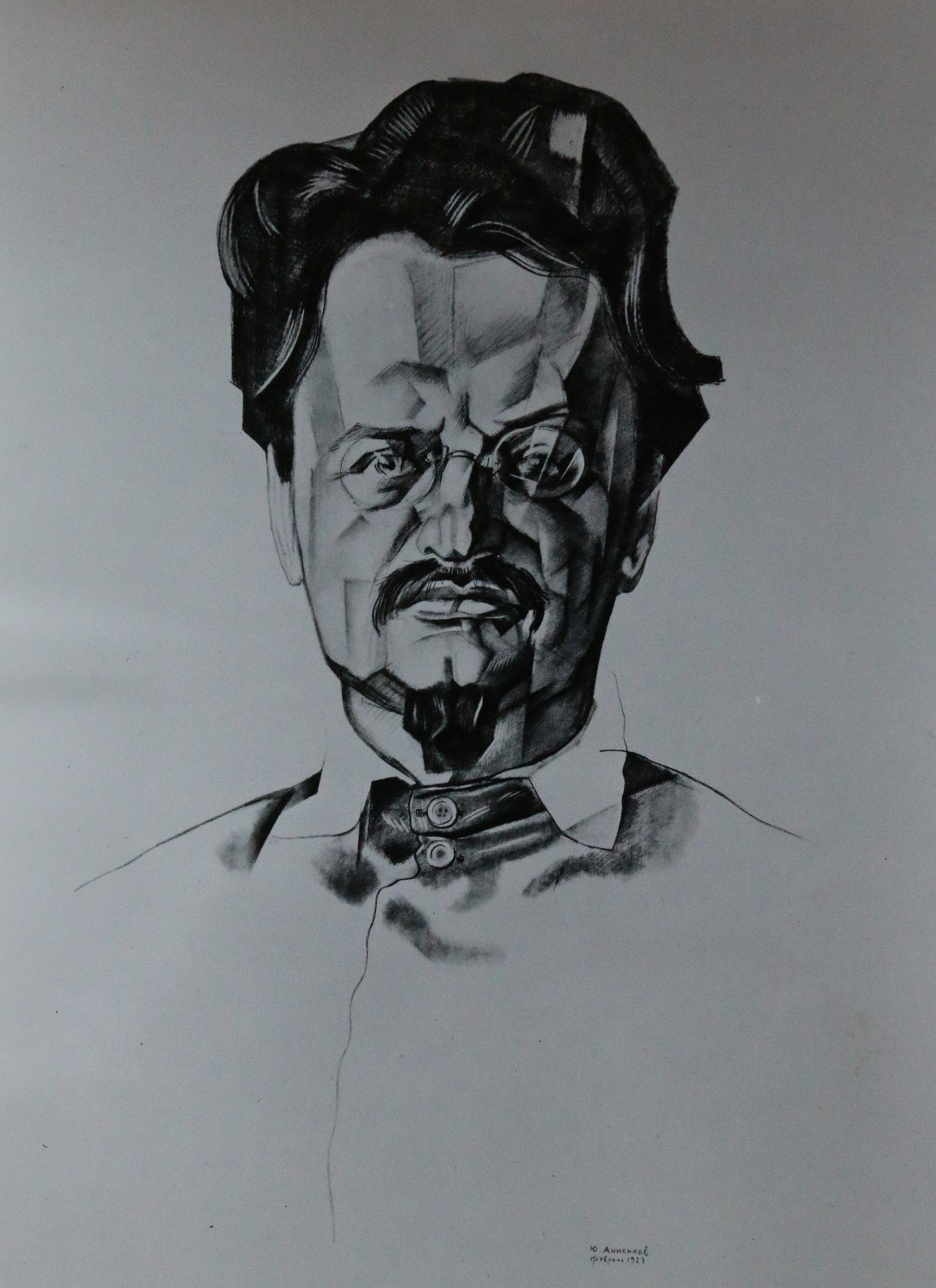 Boris Souvarine Papers - Soviet Russia Photos Notes: This document is a portrait of Leon Trotsky (1879-1940) by Yuri Annenkov. It is a photographic reproduction of picture. Description: 1 photograph. Black and white ; 23 x 17 cm.